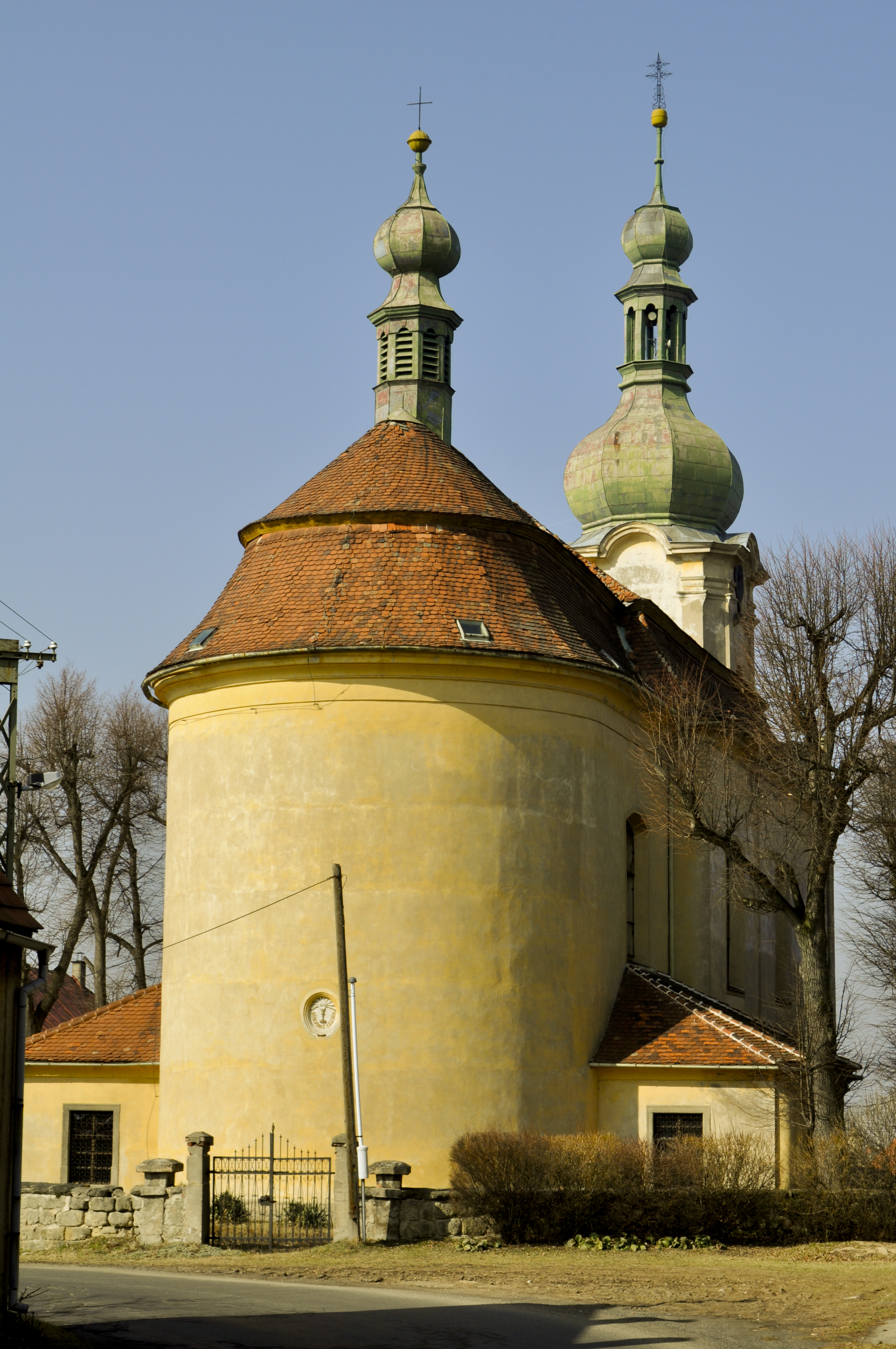 Saint Peter and Paul Church, Chcebuz, Ústí nad Labem Region